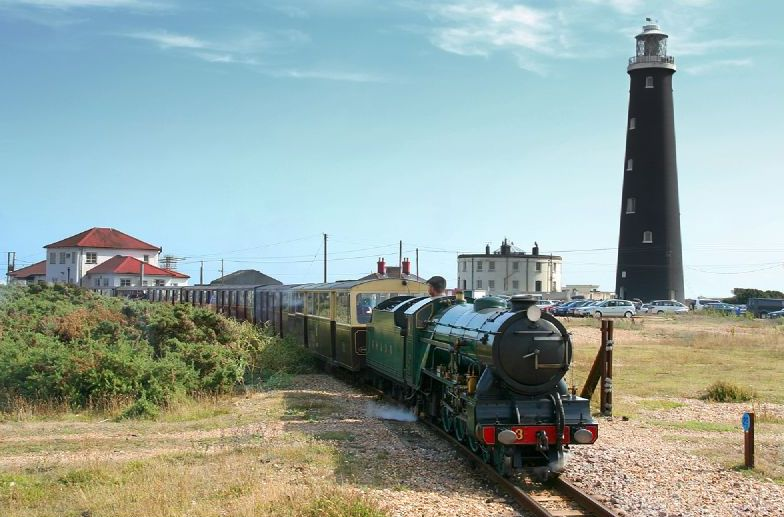 lighthouse departure